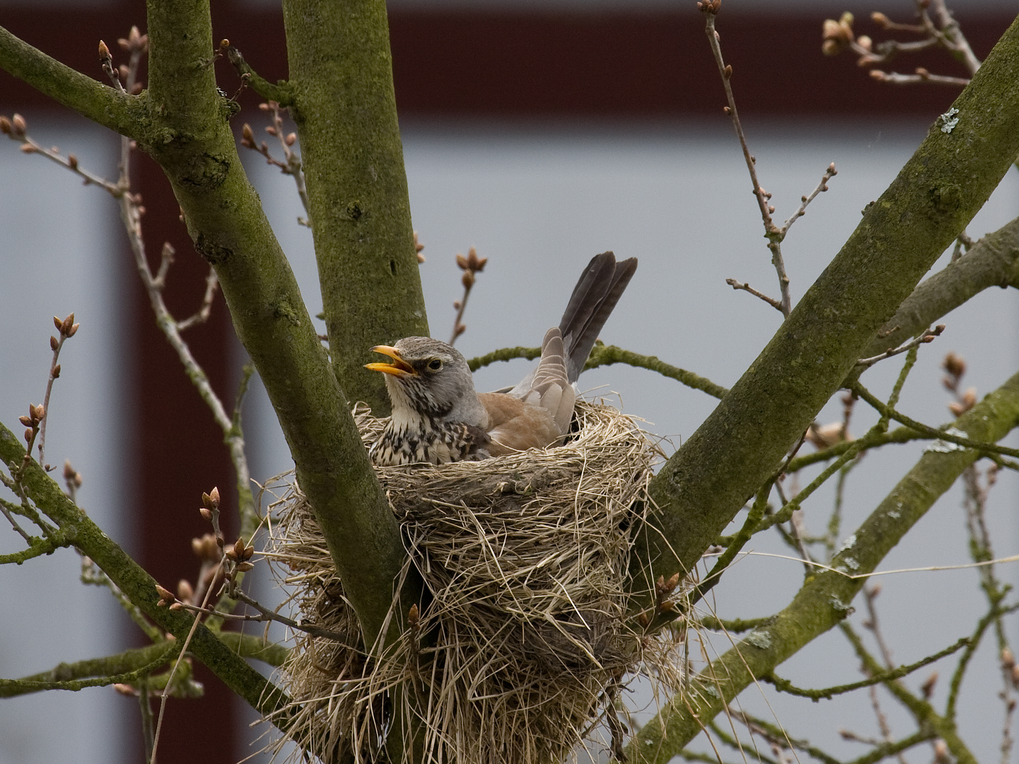 Filedfare